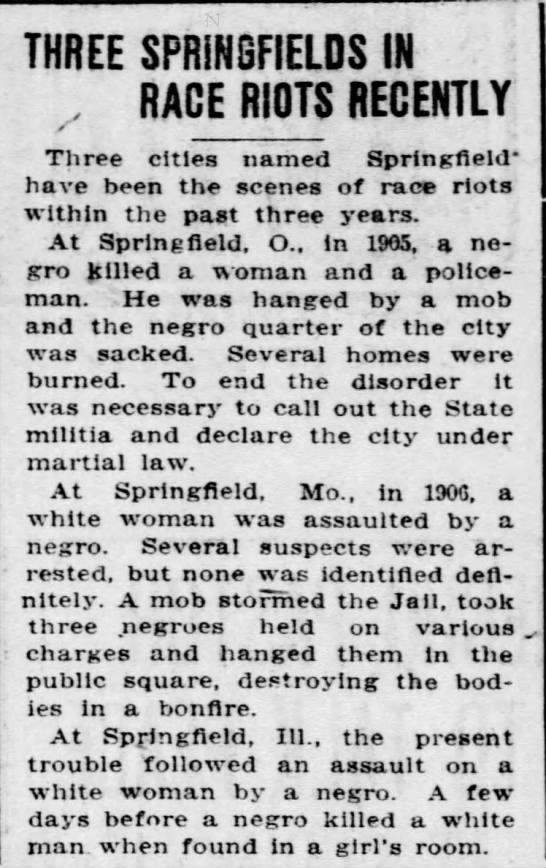 St. Louis Post-Dispatch. Aug 15 1908